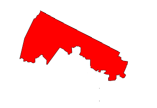 New Jersey's 39th Legislative District (2012-2022 Apportionment)